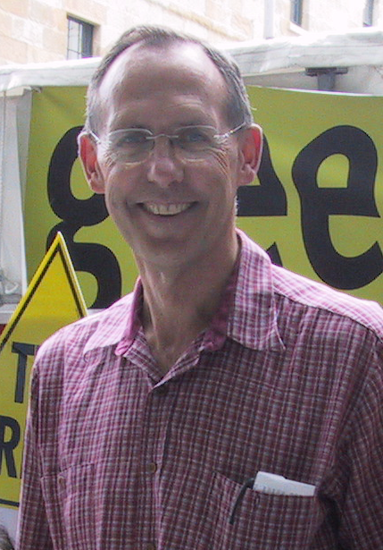 Bob Brown. Taken 18 December 2004 - Salamanca Market, Hobart, Australia.